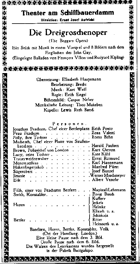 Program notes of the premiere performance of Brecht/Weill's Threepenny Opera, Theater am Schiffbauerdamm Berlin, 1928-08-31. The name of Lotte Lenya, who played a leading role, was omitted by mistake.